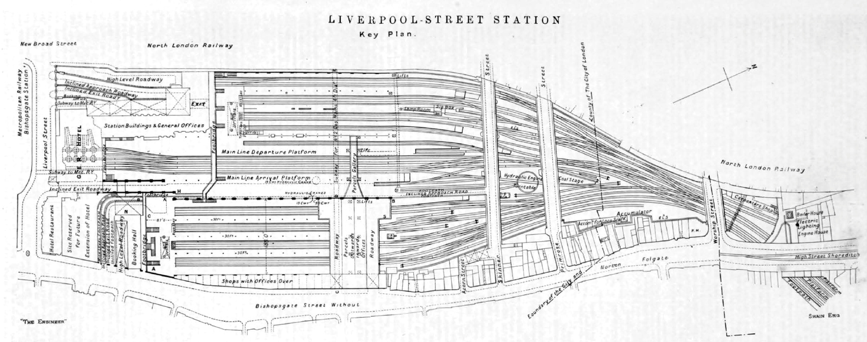 1895 Liverpool Street station extension Plan, Up is West